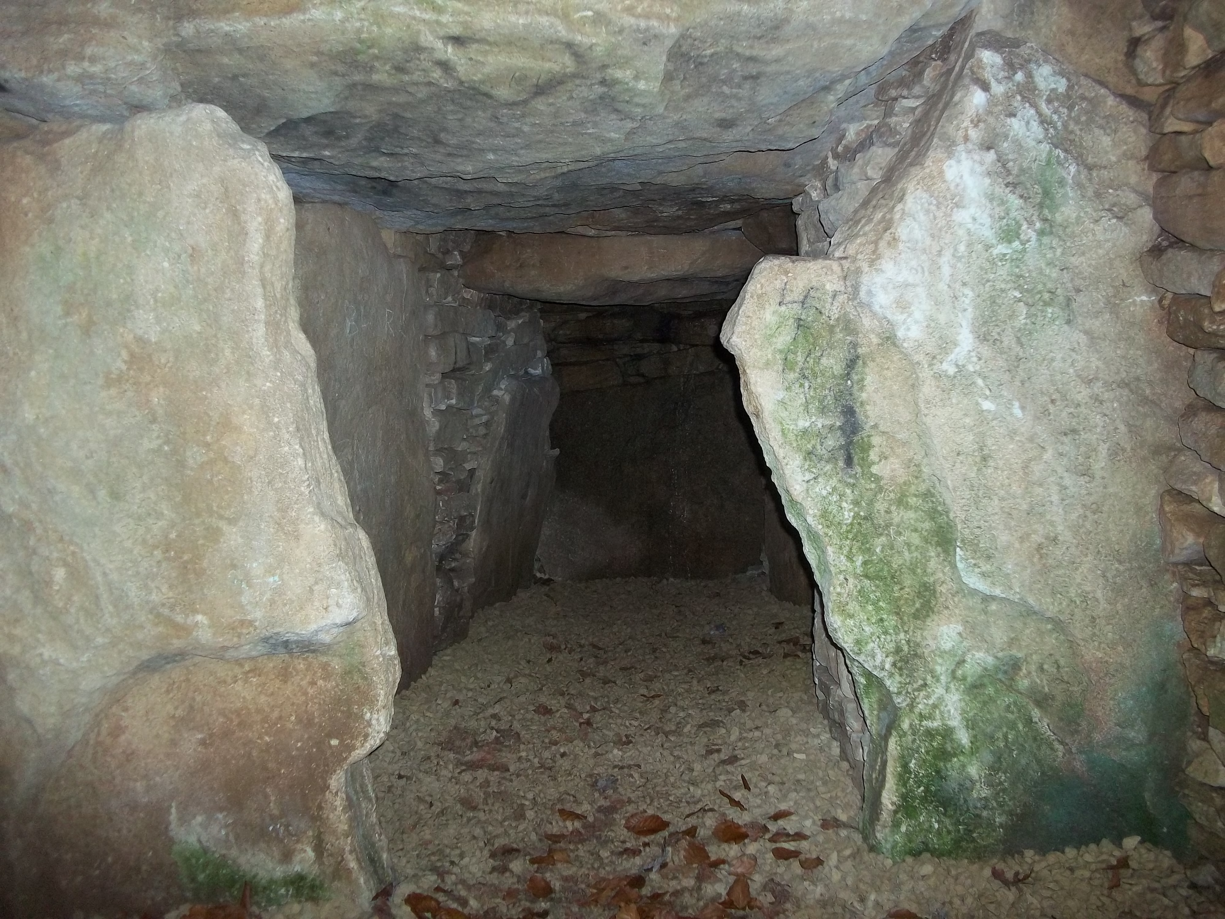 Looking towards the western end chamber inside Uley Long Barrow